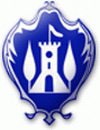 Coat-of-Arms of Herceg-Novi (Montenegro)